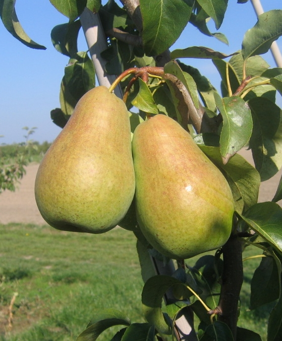 Amfora Pear